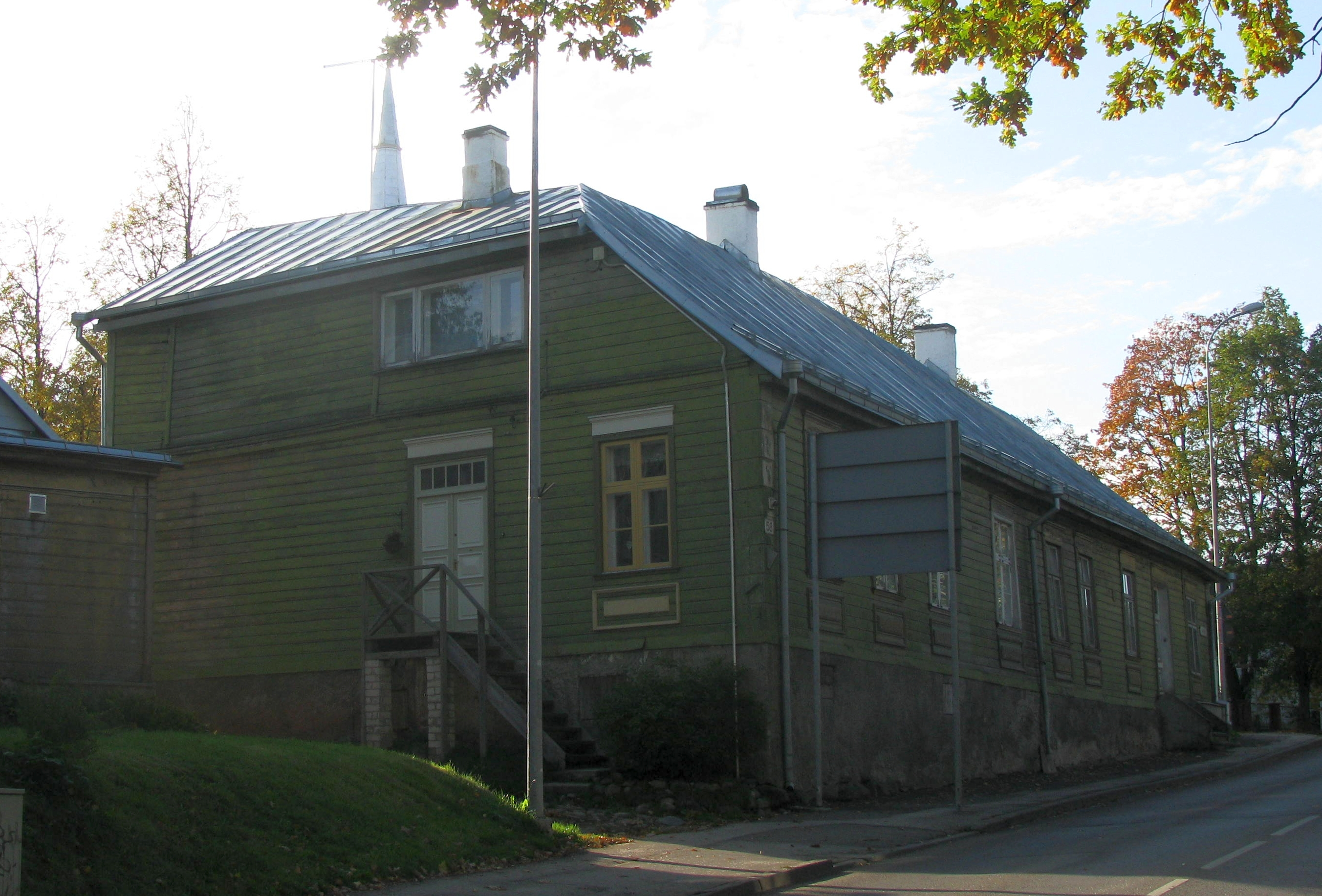 Tartu, Jakobi 54 - id 6960, September 30, 2011.